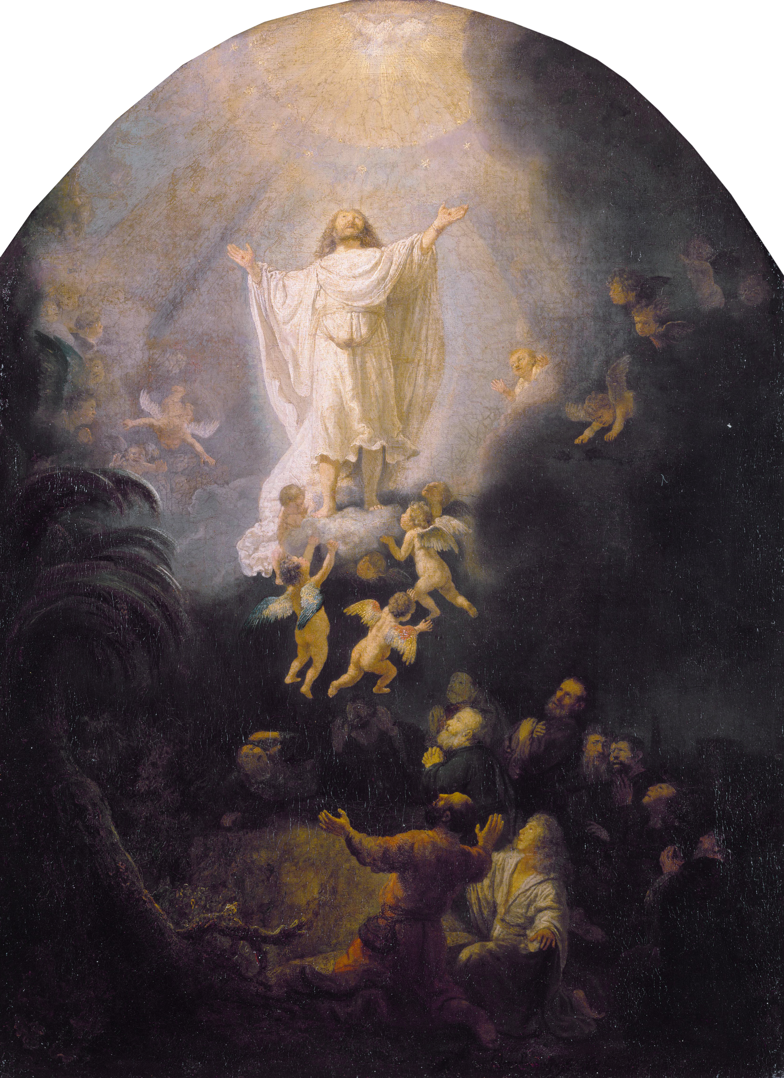 Part of Rembrandt's Passion Cycle for Frederick Henry, Prince of Orange